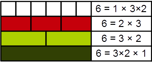 Showing, through Cuisenaire rods, that 6 is an almost prime number.